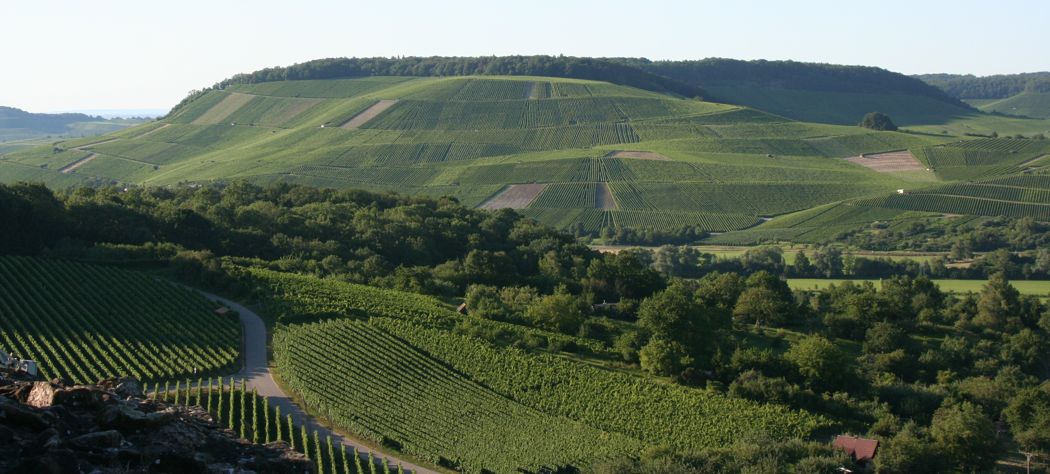 The Kayberg in Erlenbach as seen from Weinsberg (castle ruin)